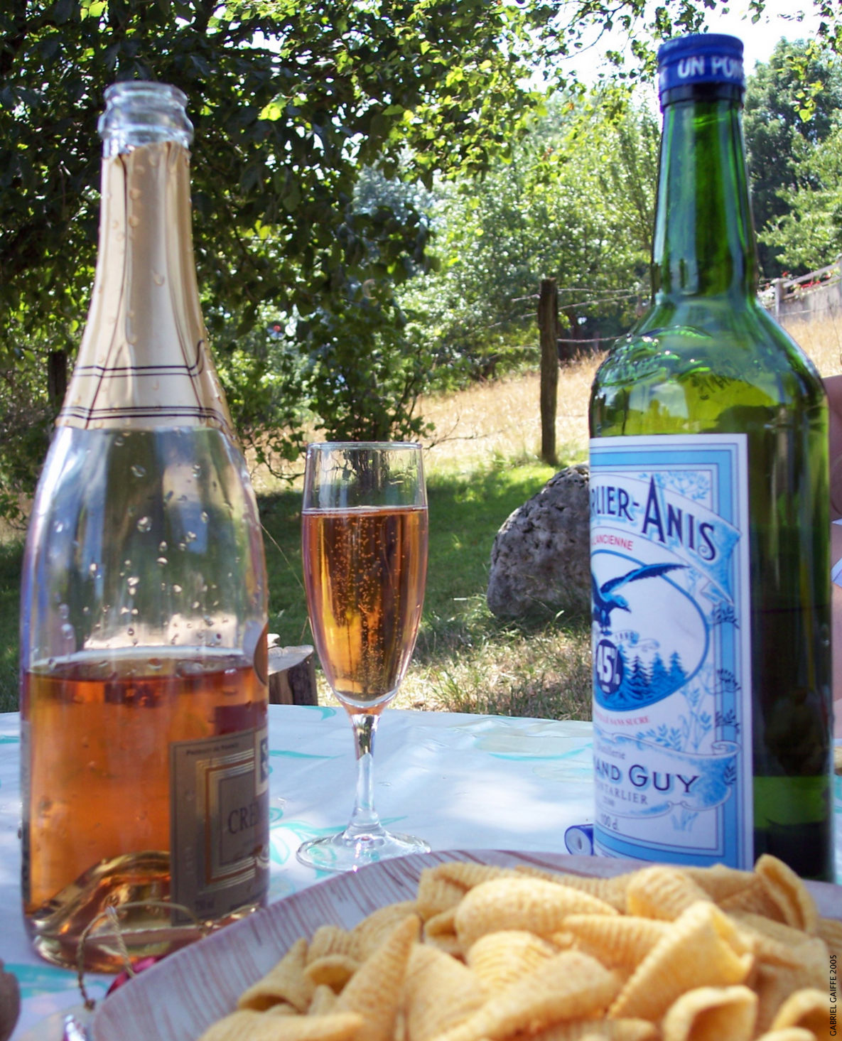 Appetiser drinks in Haut-Doubs (France)